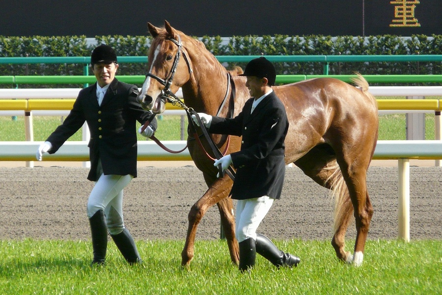 Orfevre at the 2011 Satsuki Sho horserace